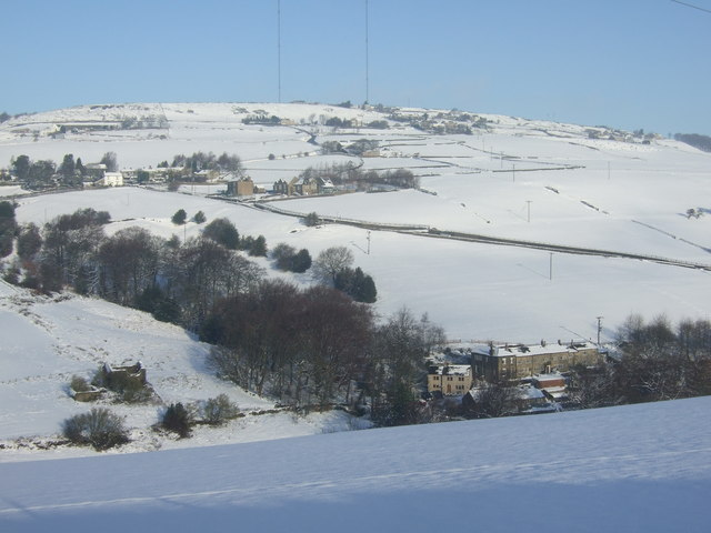 Clough House & Wilberlee, Slaithwaite on Christmas Day 2009 Keywords: Midday Christmas 2009